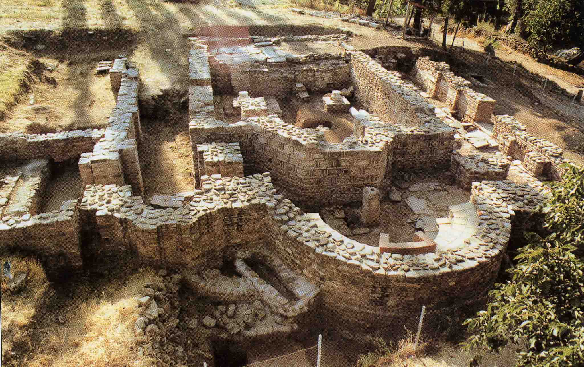 Morodvis - archeological site near Kocani, Republic of Macedonia